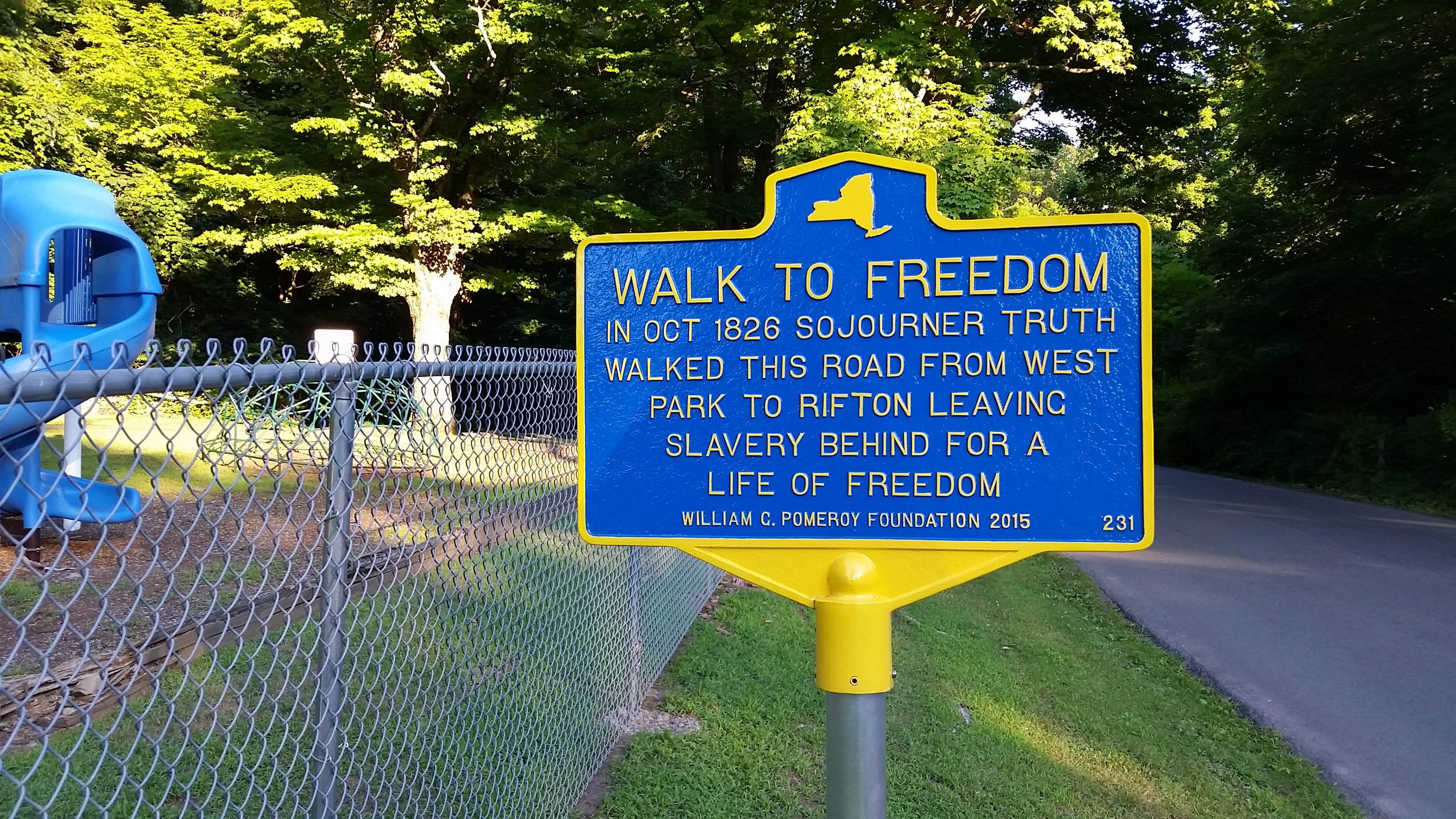 New York State Historical Marker for Sojourner Truth's walk to Freedom.